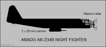 Side-view silhouette of the Arado Ar 234B nightfighter proposal